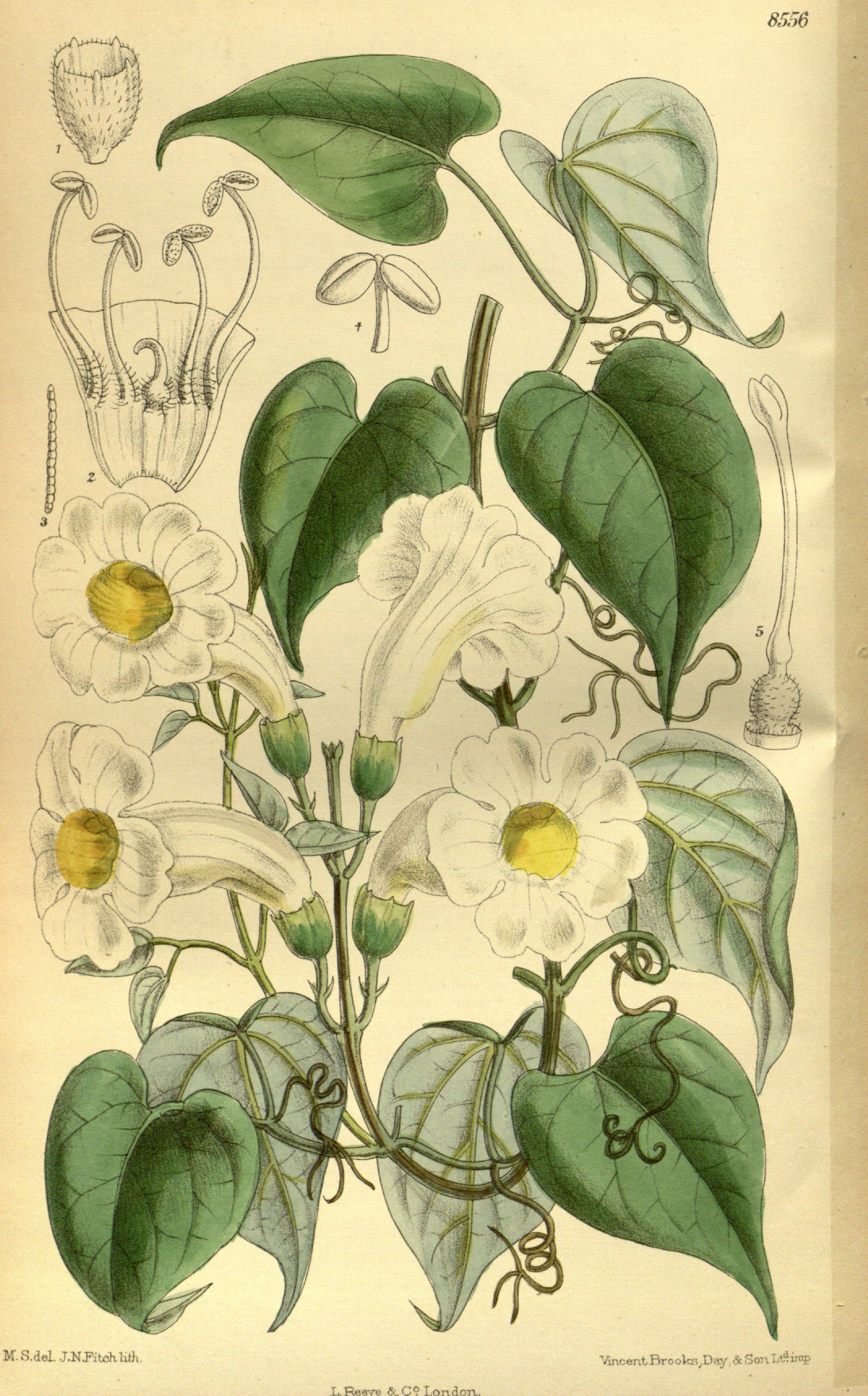 Pithecoctenium cynanchoides, Bignoniaceae